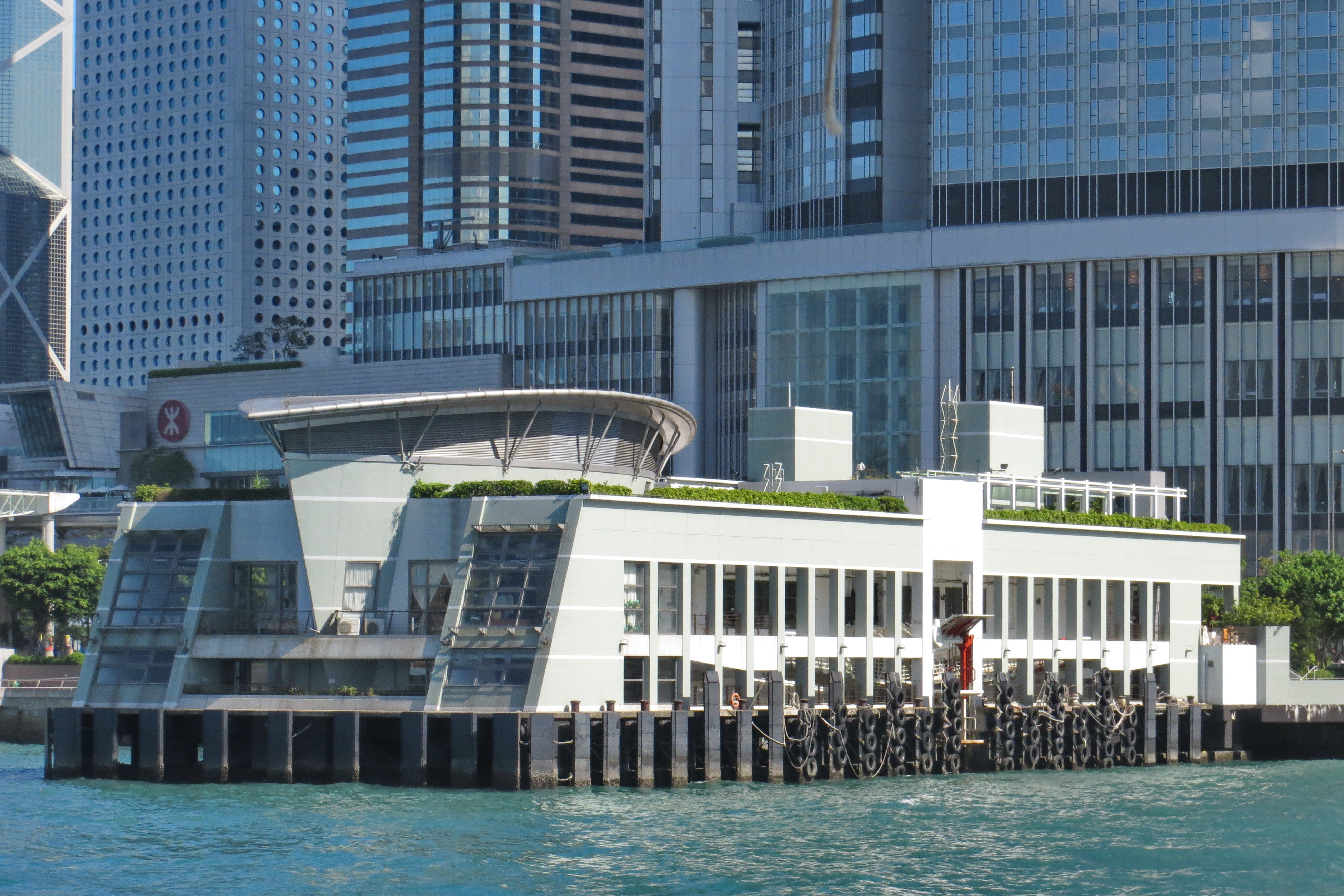 Central Ferry Piers, Pier 2, Hong Kong.